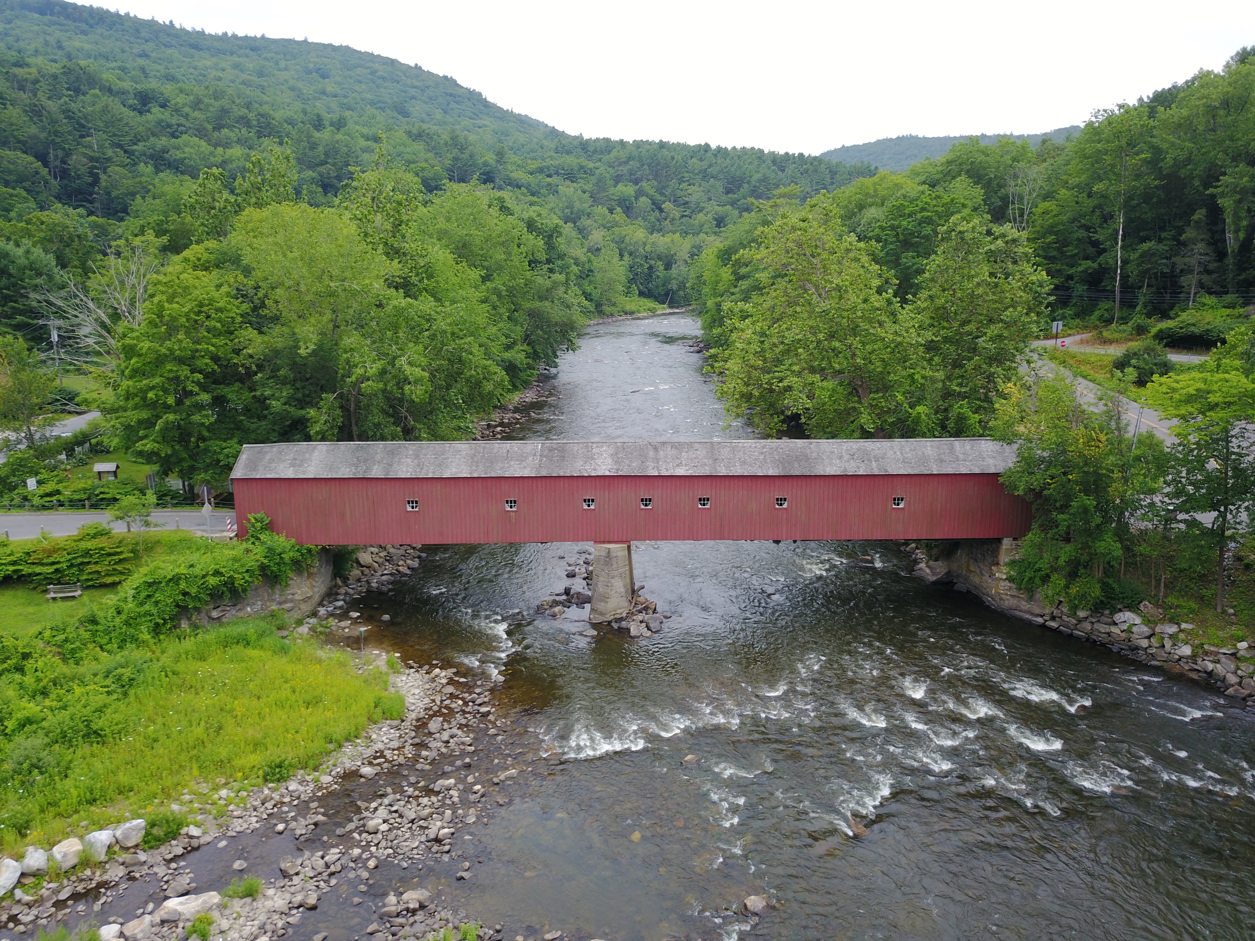 Aerial photograph of the West Cornwall Covered Bridge, taken in the summer of 2017.